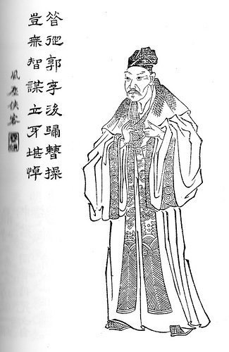 A Qing Dynasty portrait of Jia Xu.